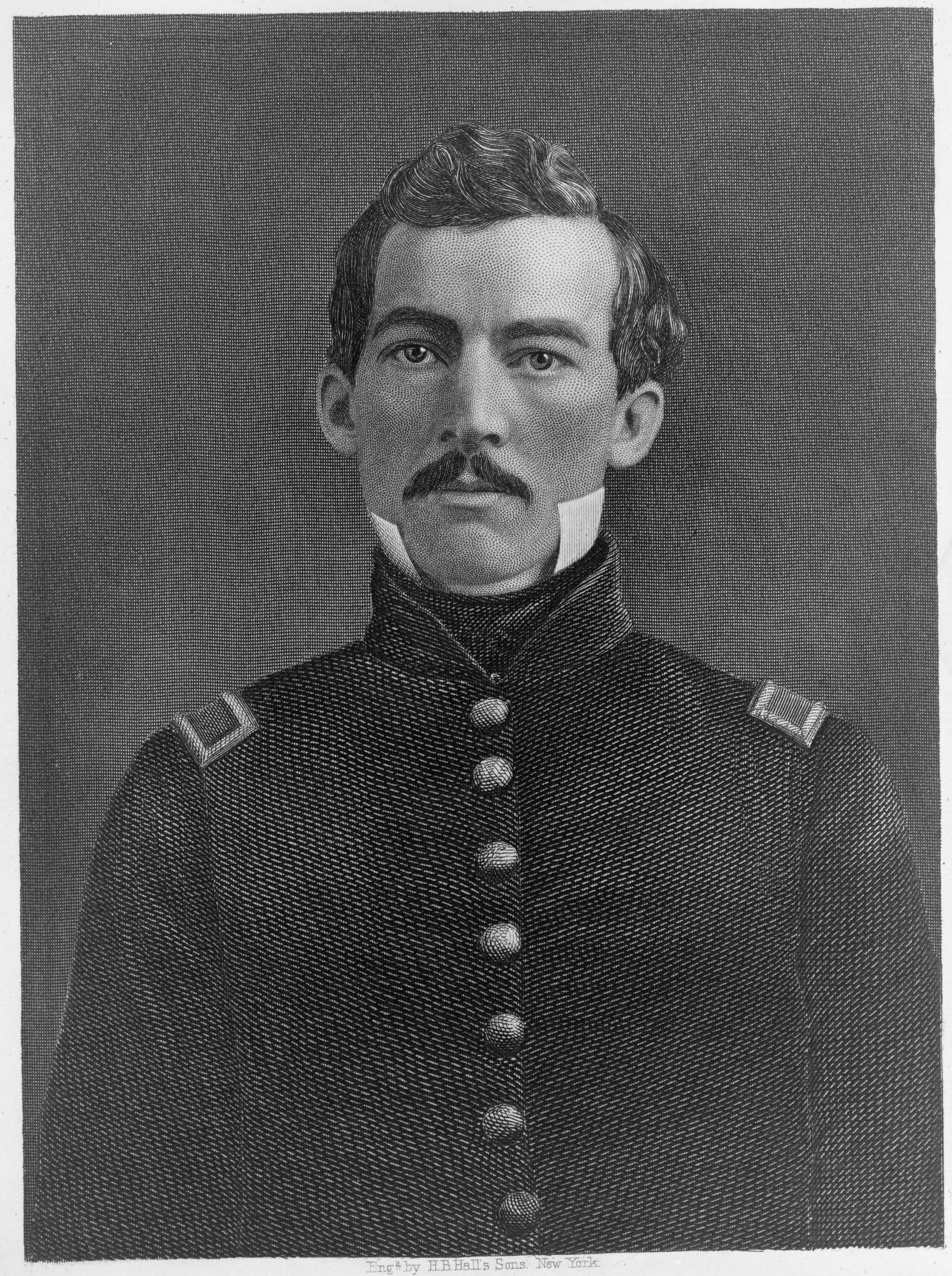 Philip Sheridan as a Brevet 2nd Lieutenant, 1st Regiment Infantry, around 1853.